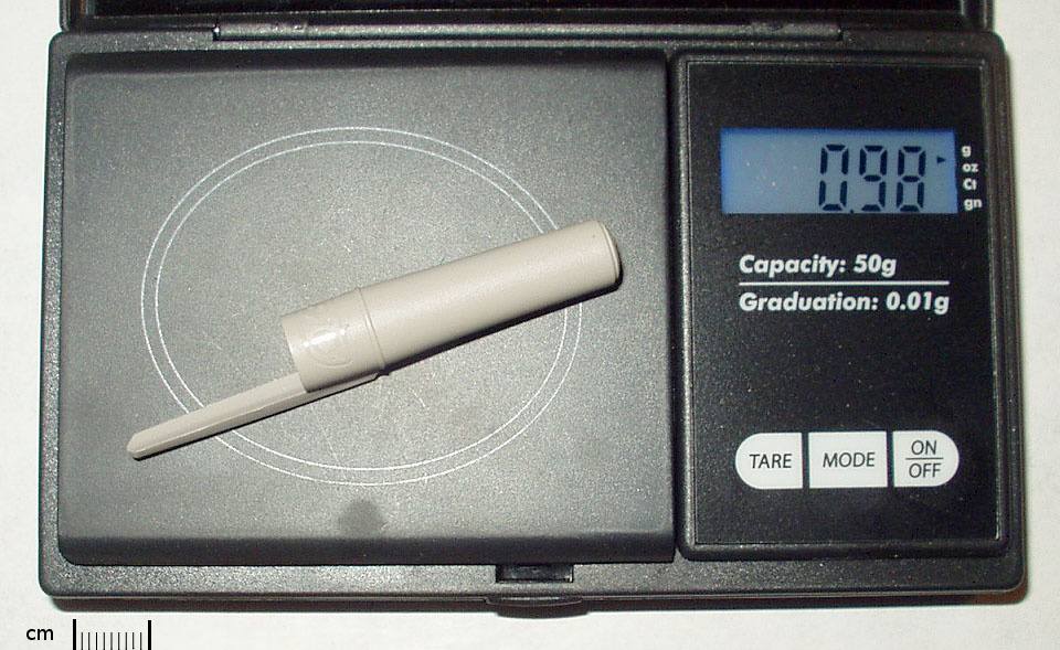 BIC brand pen cap on a digital scale, indicating a weight 0.98 gram.